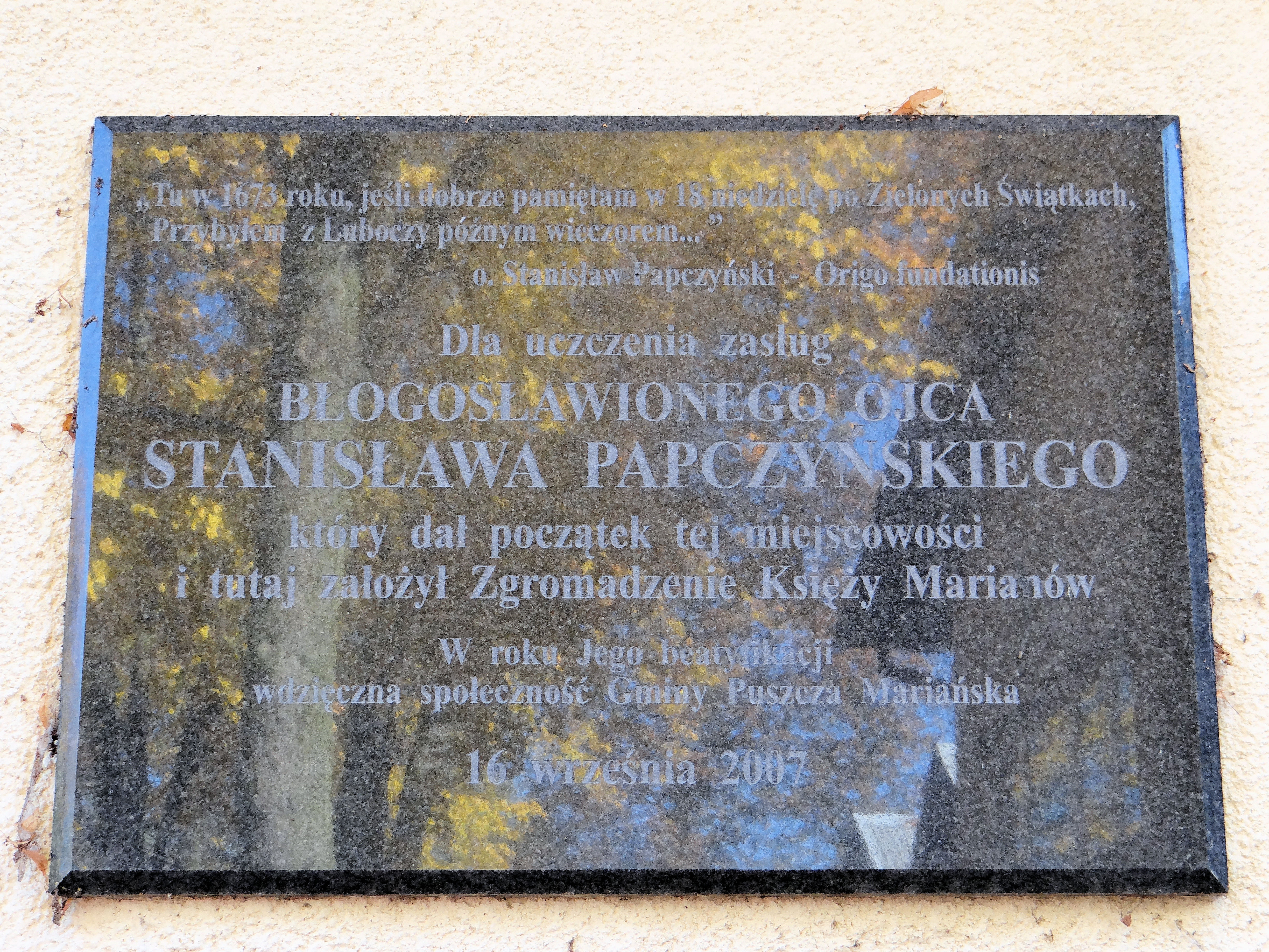 Plaque commemorating Stanislaus' Papczyński in Puszcza Mariańska